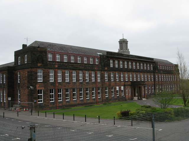 Jordanhill School Founded in 1920, it was formerly run by Jordanhill College of Education and was previously known as Jordanhill College School.